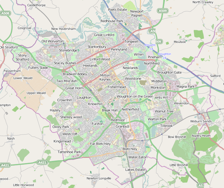 A map of Milton Keynes, England